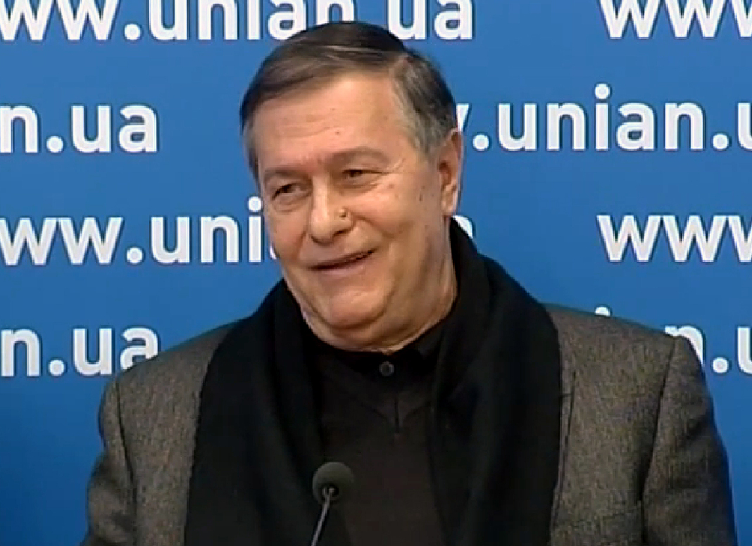 Roman Balayan, 16 February 2015.